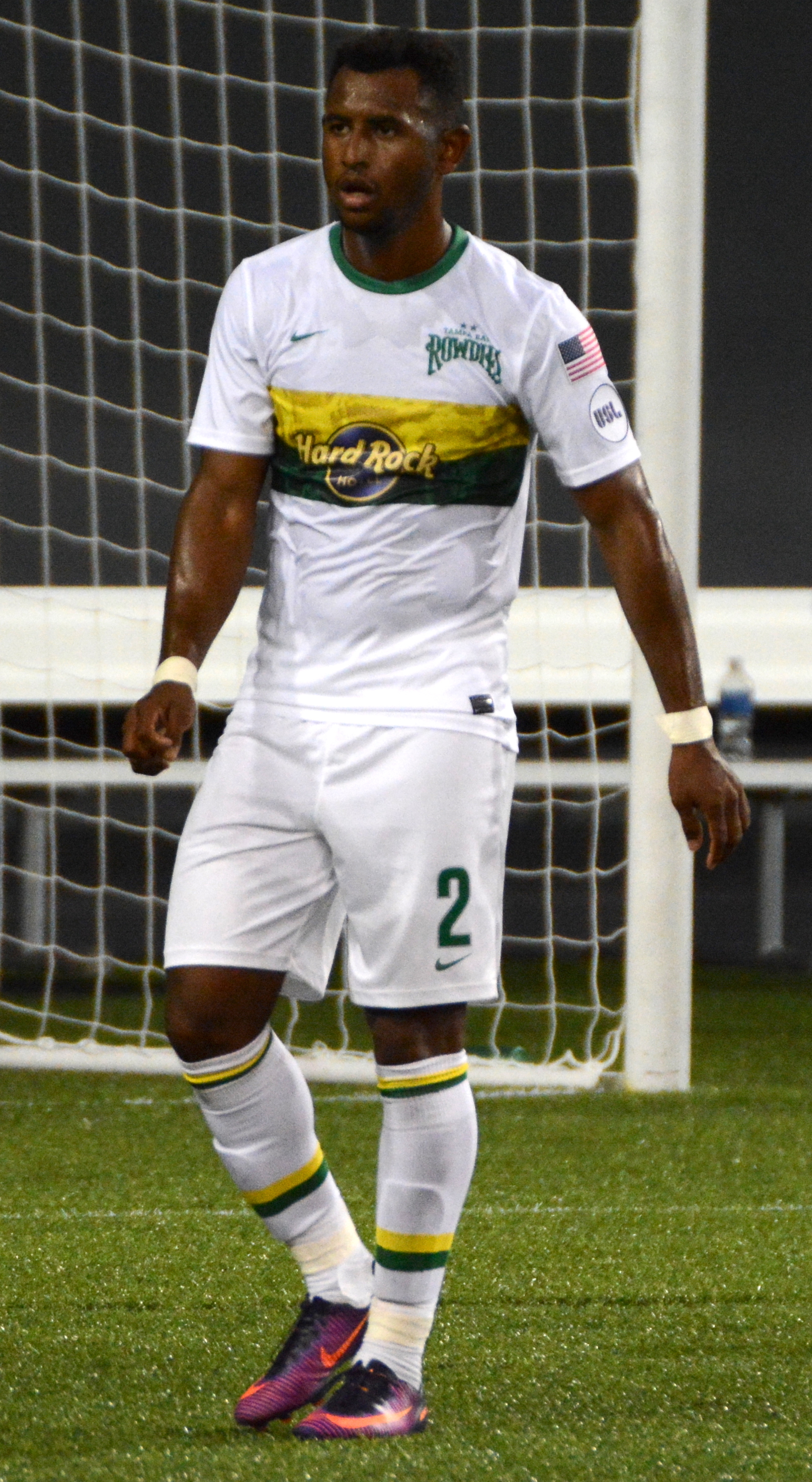 Darnell King Taken during a match between FC Cincinnati and Tampa Bay Rowdies at Nippert Stadium in Cincinnati, USA on April 19, 2017.